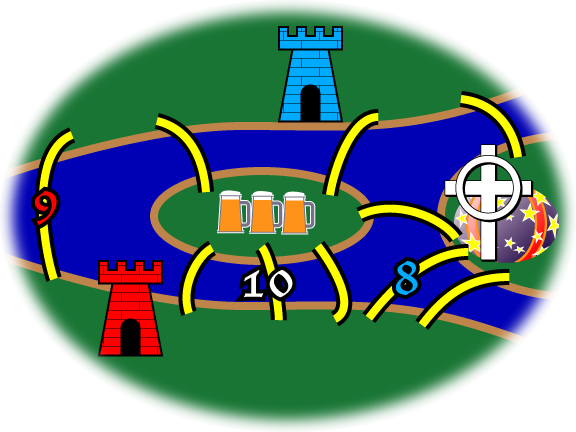 This is a rendering of the solution to the variation of Seven Bridges of KÃ¶nigsberg, using identified nodes. This is not the classic problem, in which the nodes are unidentified. See: Graph theory#Glossary I created this image. -- — Xiong (talk) 00:44, 2005 Mar 21 (UTC)